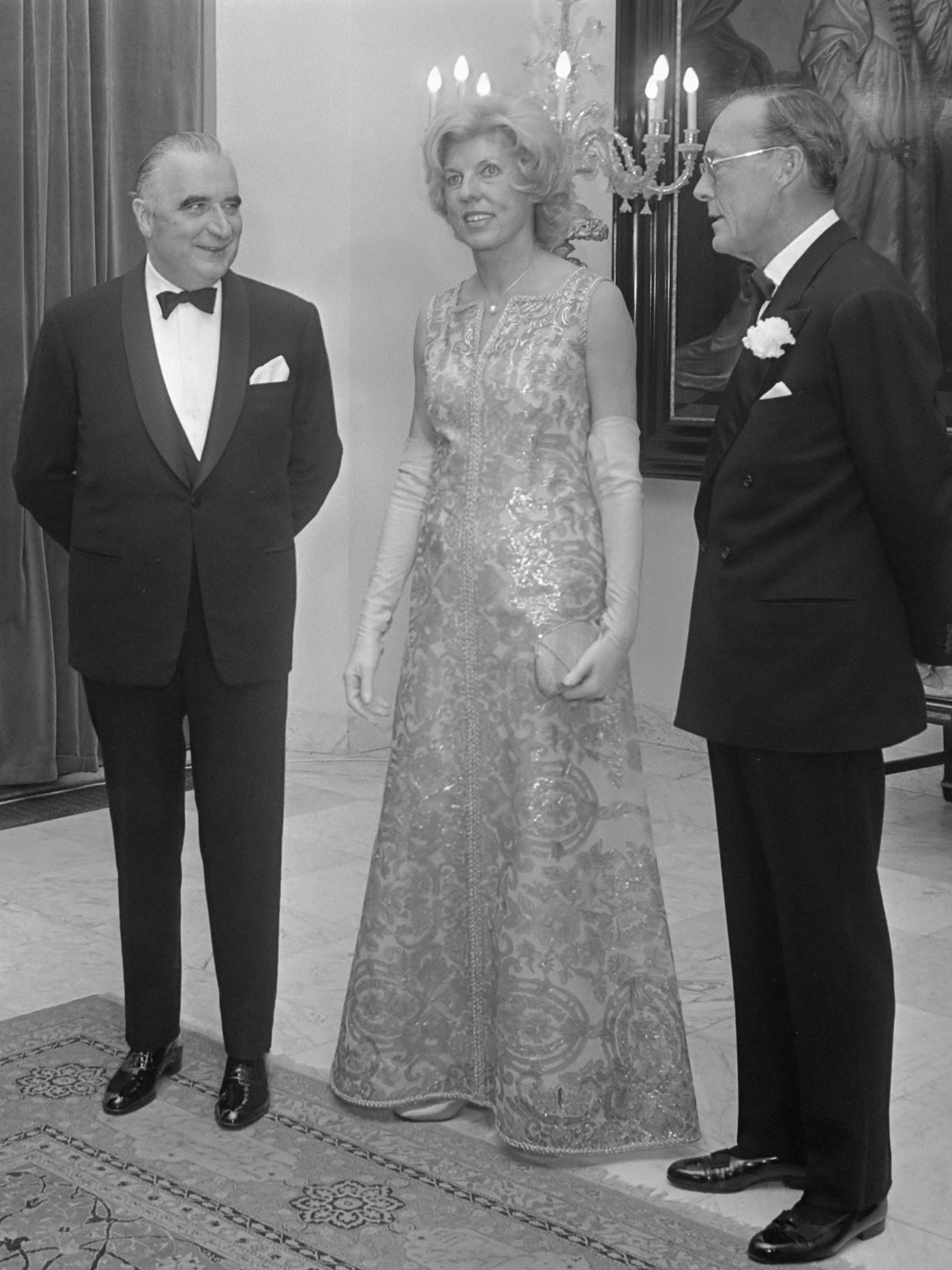 Koningin Juliana en prins Bernhard bieden de deelnemers aan de EEG-Topconferentie een galadiner aan op paleis Huis ten Bosch; v.l.n.r. koningin Juliana, president Pompidou van Frankrijk, mevrouw Claude Pompidou en prins Bernhard 1 december 1969